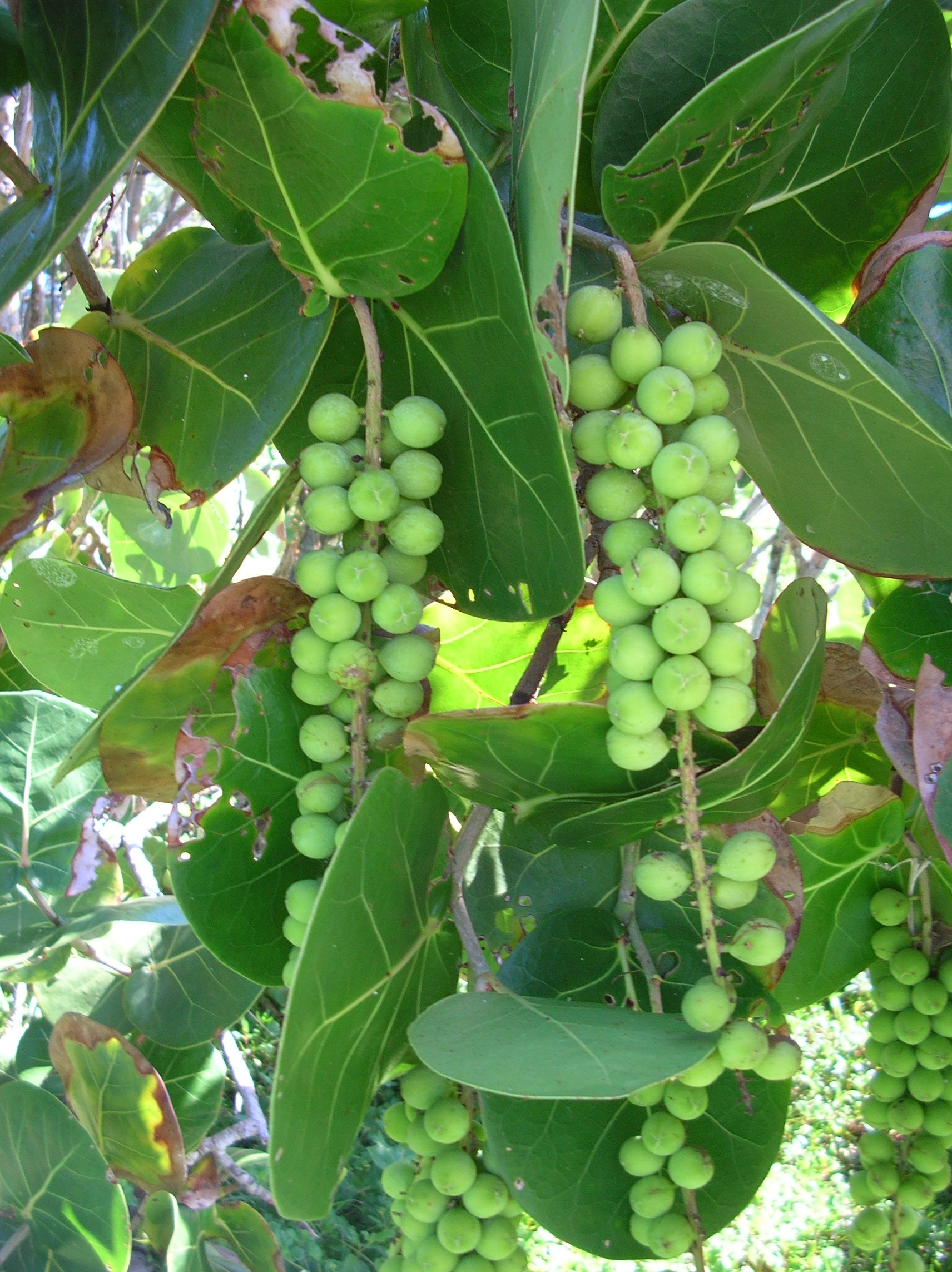 Coccoloba uvifera (fruits). Location: Oahu, Mokuauia